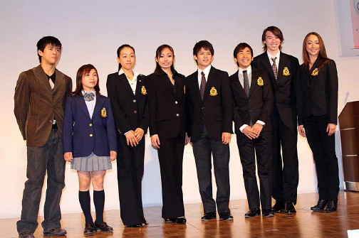 Team Japan at the 2009 ISU World Team Trophy in Figure Skating. From left to right: Mervin Tran, Narumi Takahashi, Mao Asada, Miki Ando, Takahiko Kozuka, Nobunari Oda, Chris Reed, Cathy Reed